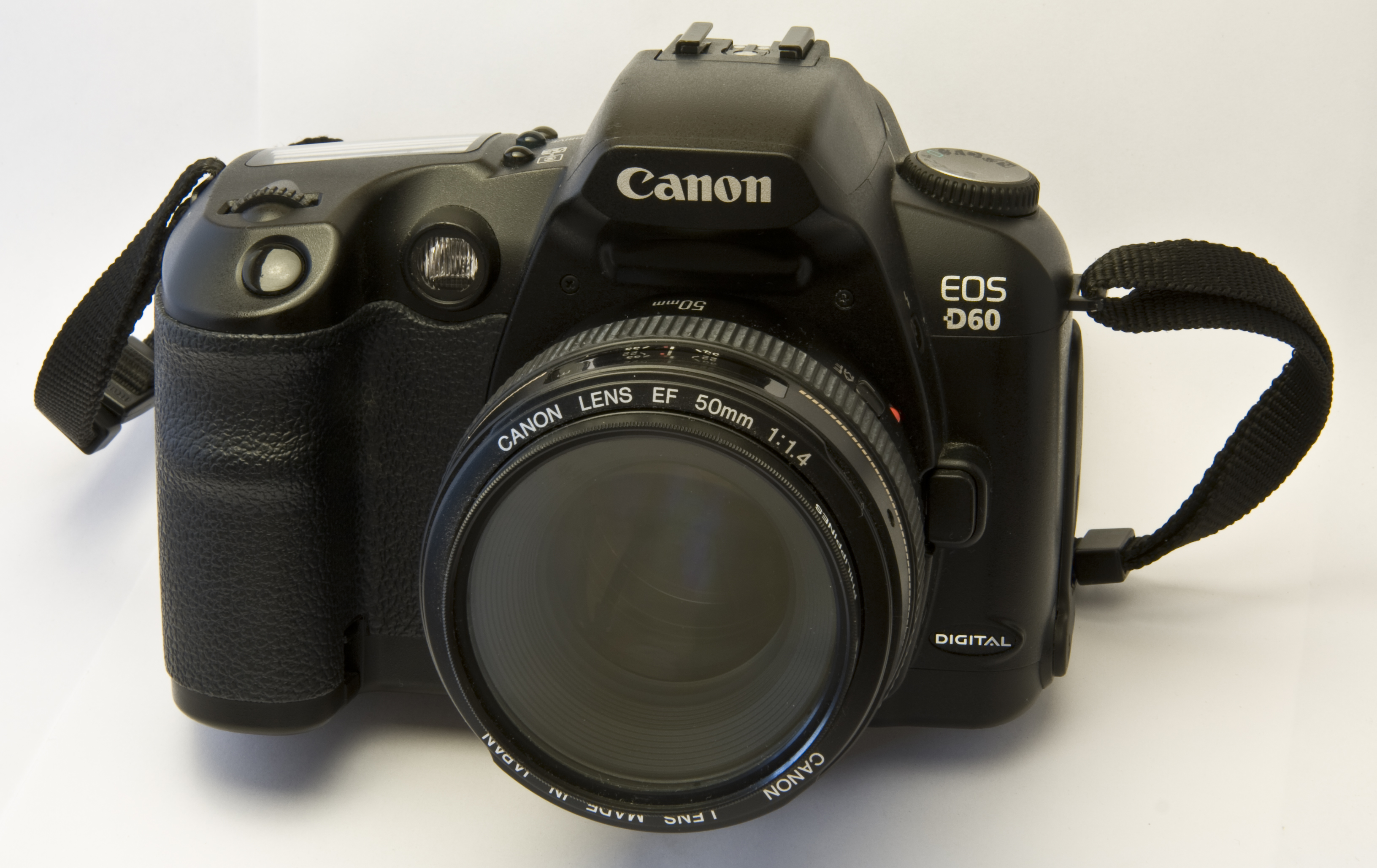 Canon EOS D60 digital camera.